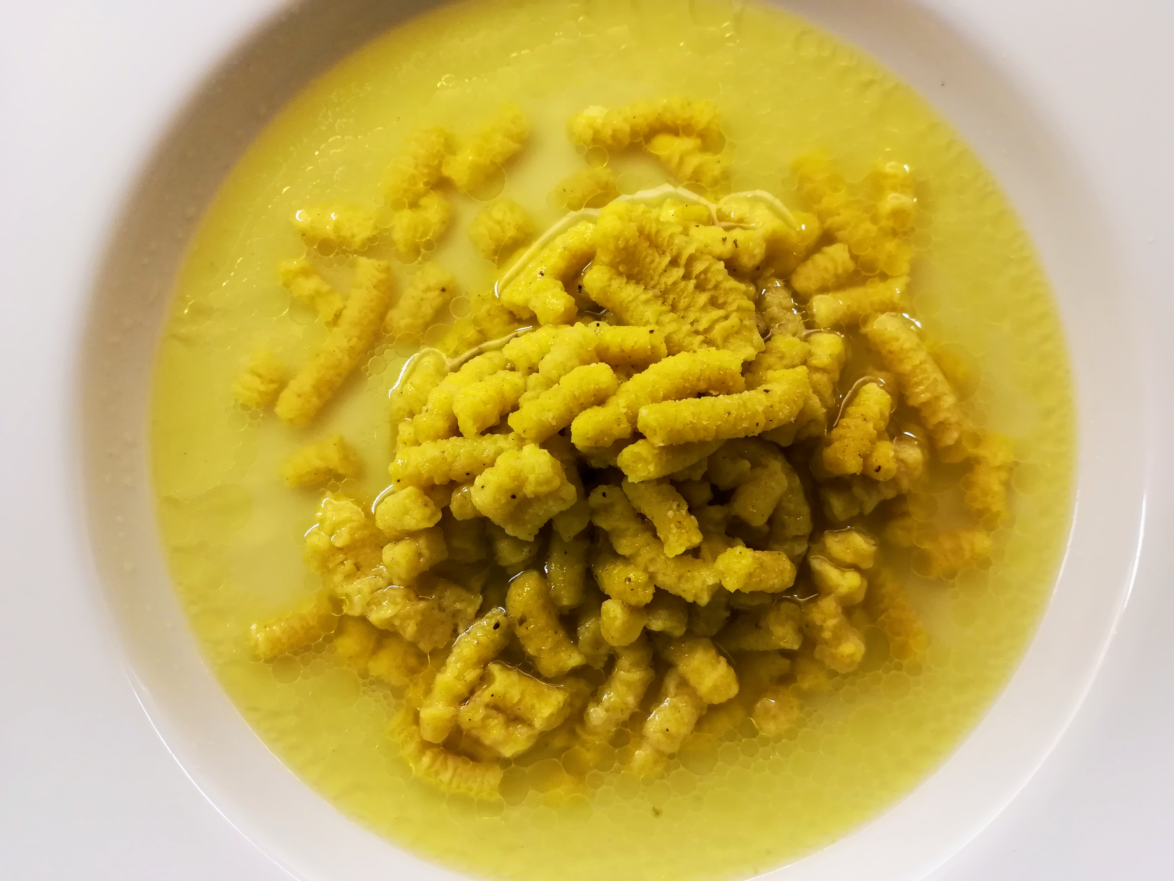 Passatelli are pasta made of breadcrumbs and broth